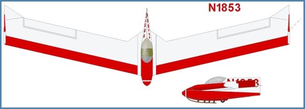 Kasperwing Flying Wing